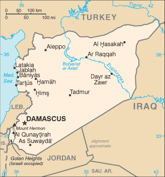 A map of Syria, showing major towns.